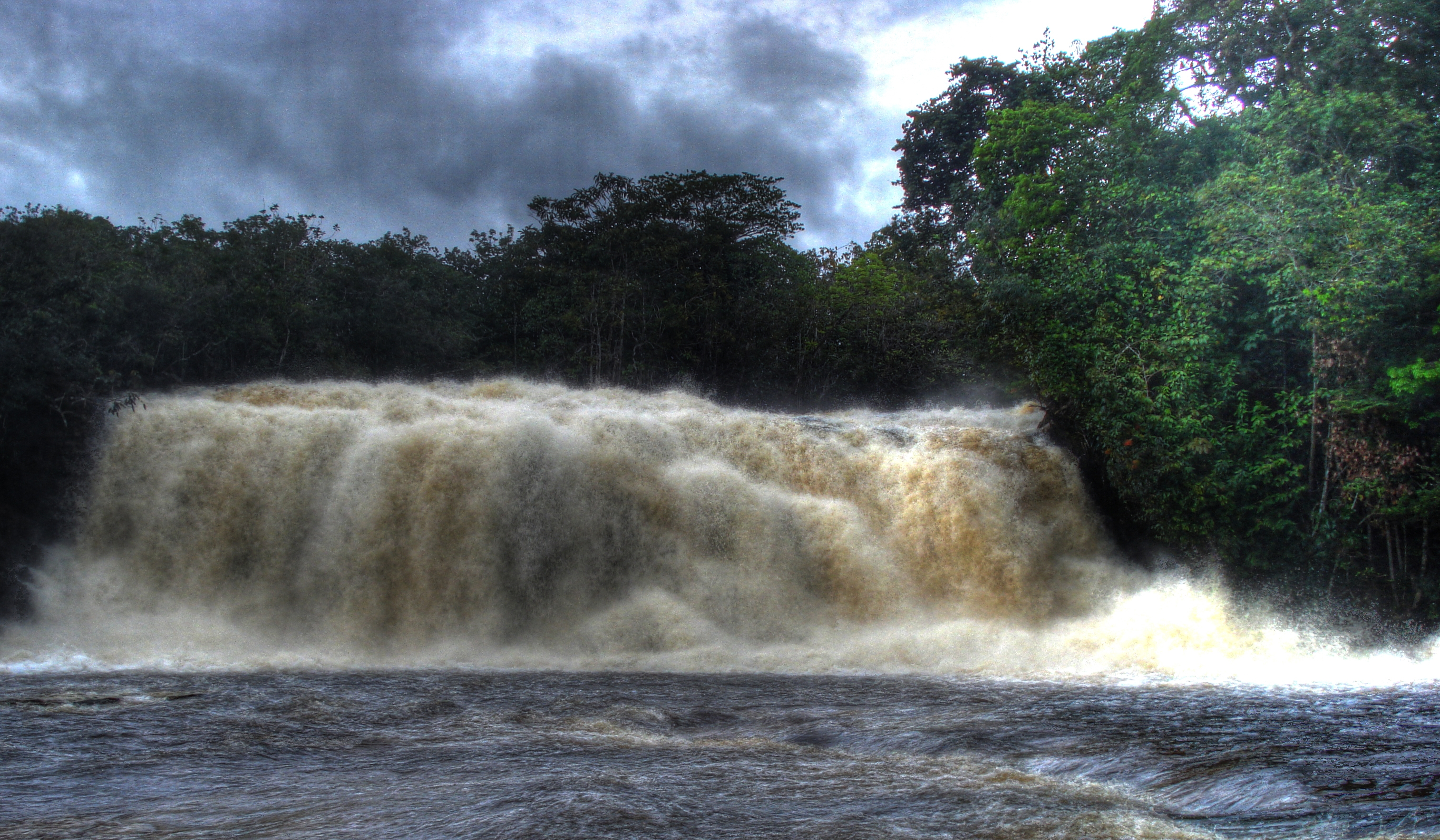 Iracema Falls (Cachoeira de Iracema), near Presidente Figueiredo, Amazon, Brazil